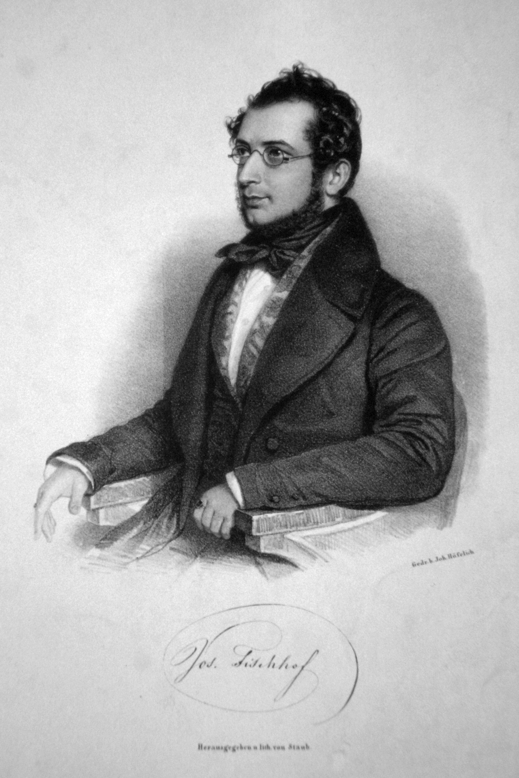 Joseph Fischhof (1804-1857), Austrian Pianist and musical writer. Lithograph.